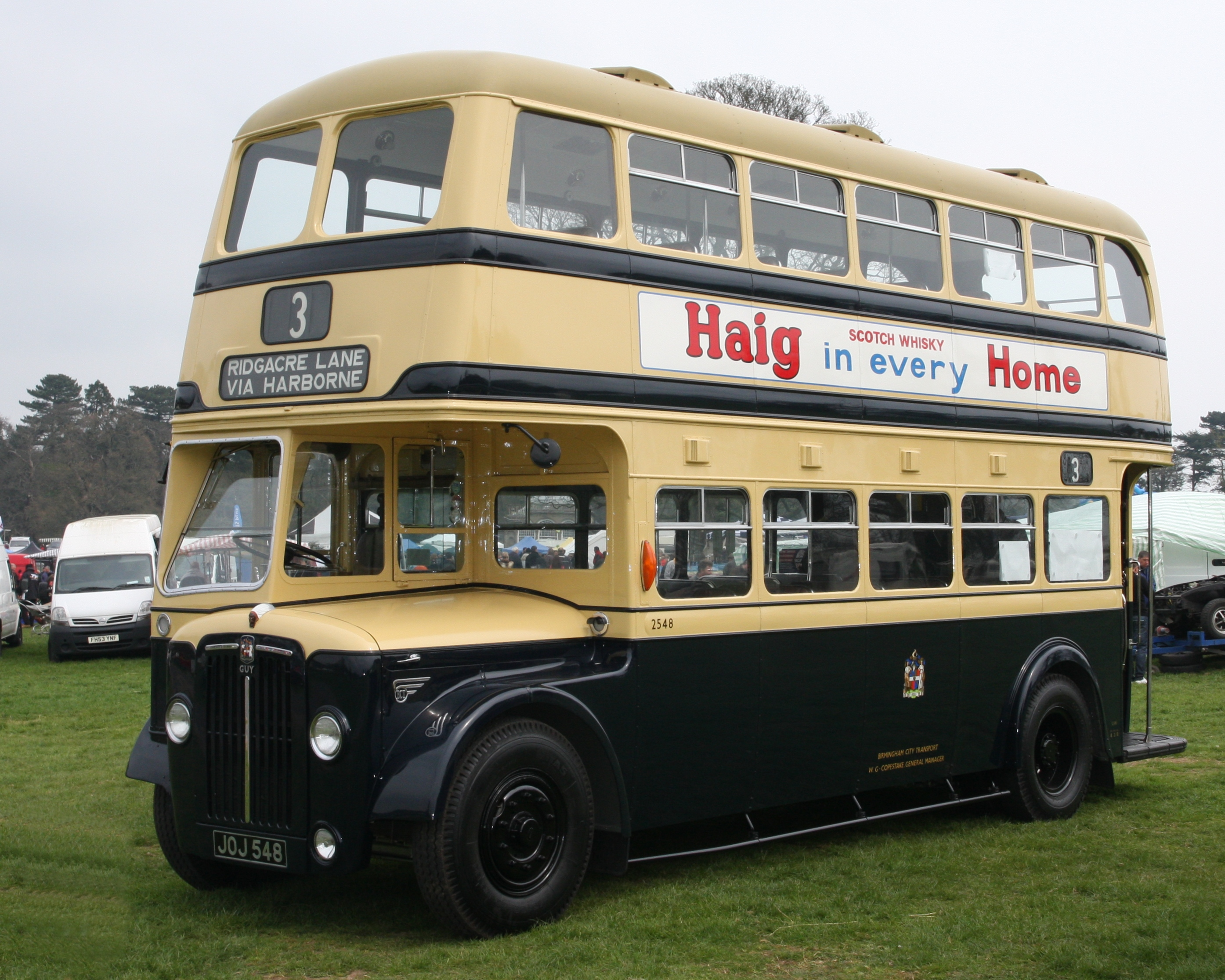 Guy Arab bus (1950)